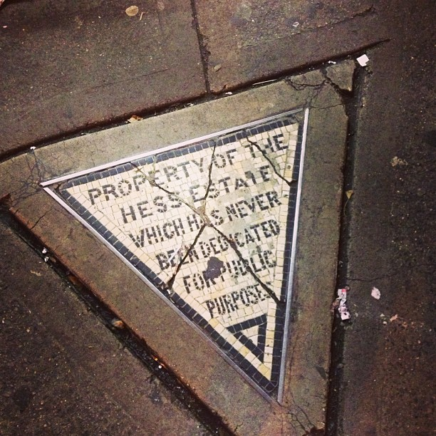 The Hess triangle plaque in the West Village, New York City